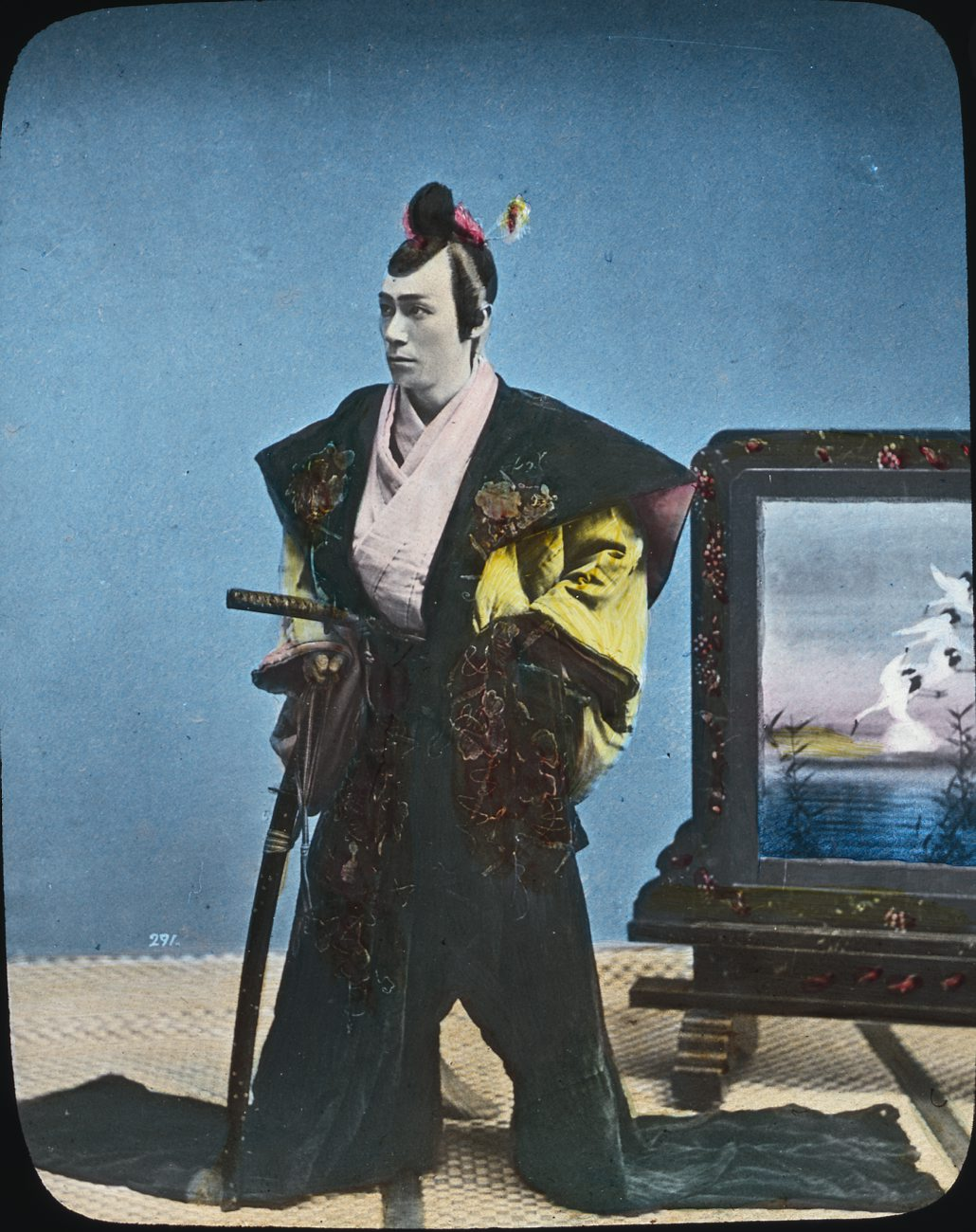 Hand-coloured lantern slide. Japanese samurai. Photo: Okänd/ Unknown